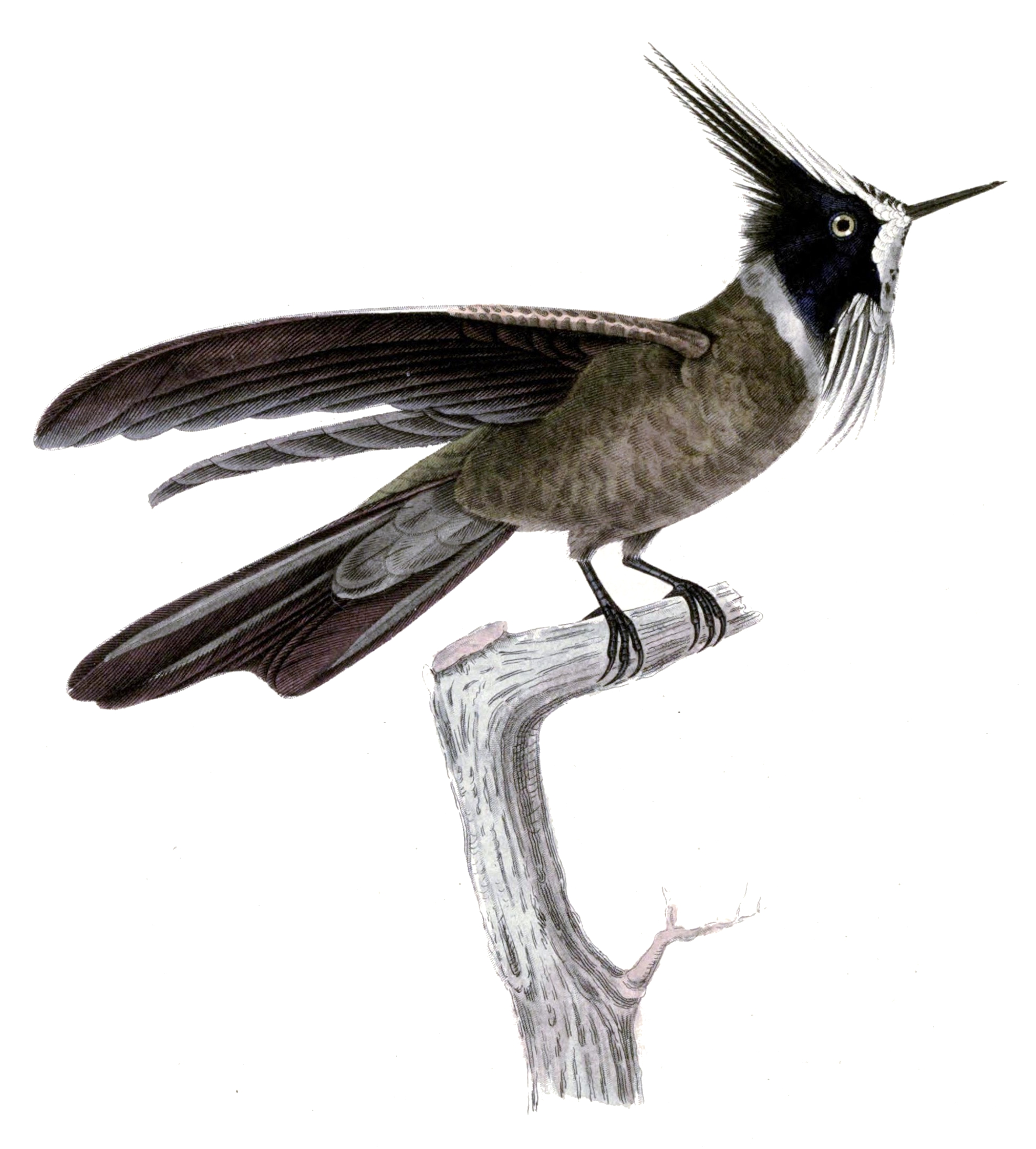 Ornismya lindenii = Mérida Helmetcrest (Oxypogon guerinii lindenii), subspecies of the Bearded Helmetcrest